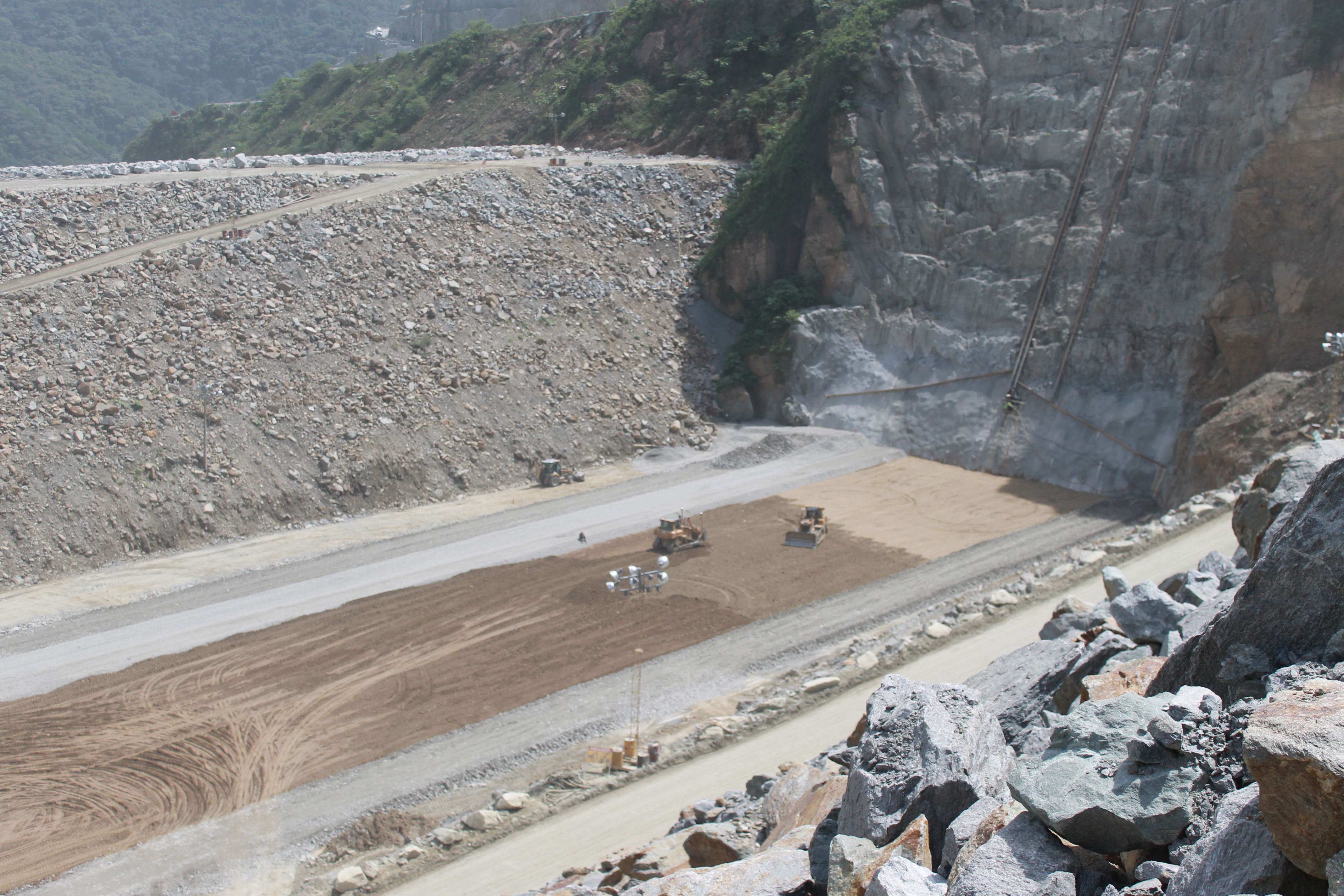 Photo taken from above (almost at the final level of the dam)